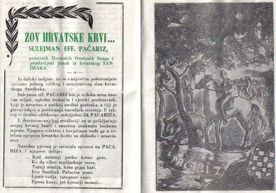 Two pages from Osvit magazene published in Sarajevo during WWII